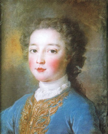 Louis Philippe d'Orléans (1725-1785) as Duke of Chartres in March 1732